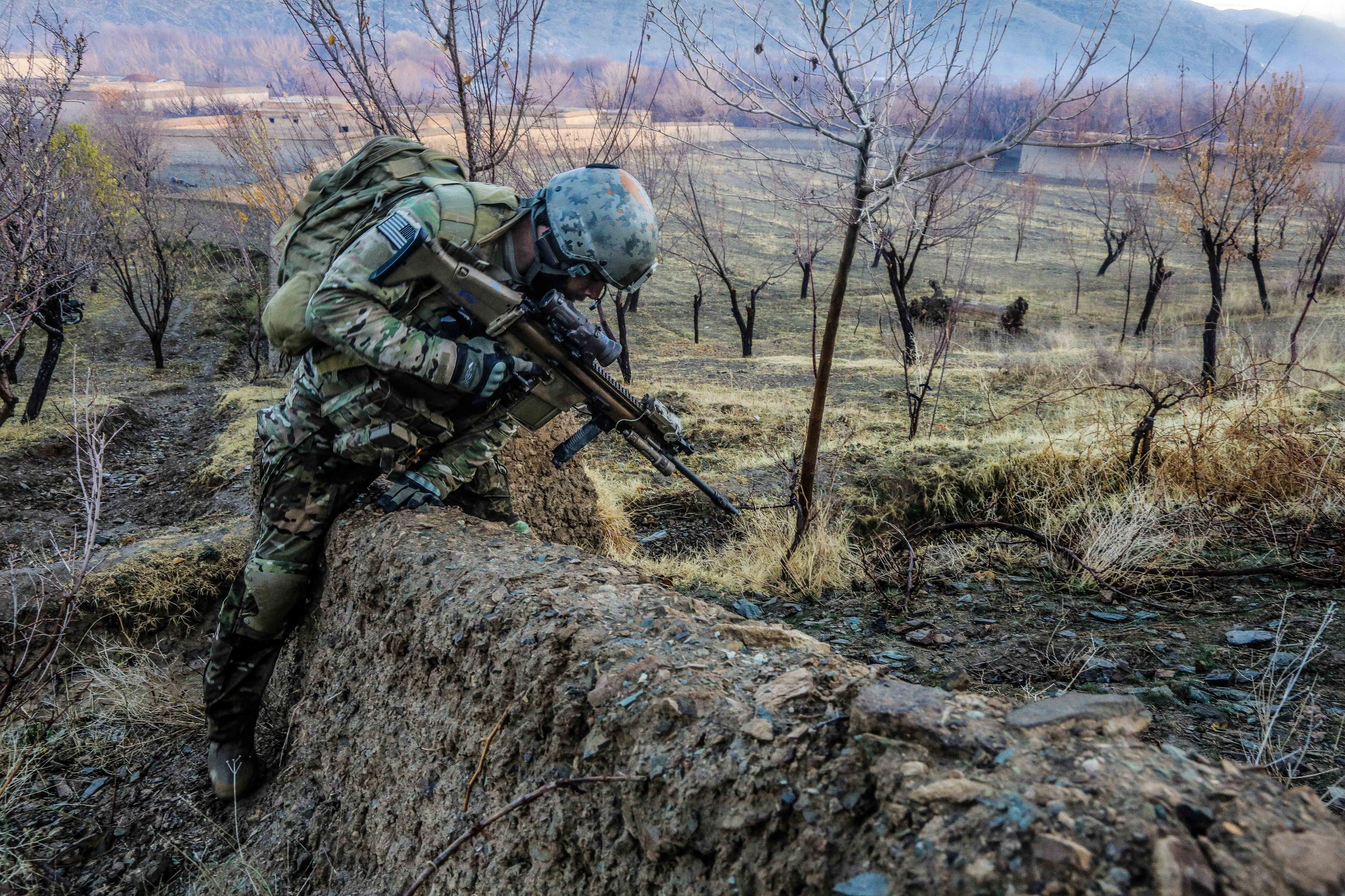 A U.S. Special Forces soldier climbs over a short wall during a clearing operation in Gaza Valley, Arghandab district, Zabul province, Afghanistan, Dec. 11, 2013. The clearance operation was conducted by Afghan National Security Forces in order to disrupt insurgent freedom of movement in the area. (U.S. Army photo by Pfc. David Devich/ Released) Unit: Combined Joint Special Operations Task Force – Afghanistan